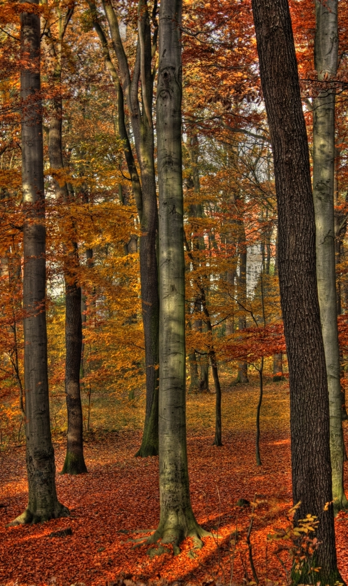 Autumnal forest in Prague (Czech Republic). HDR photography